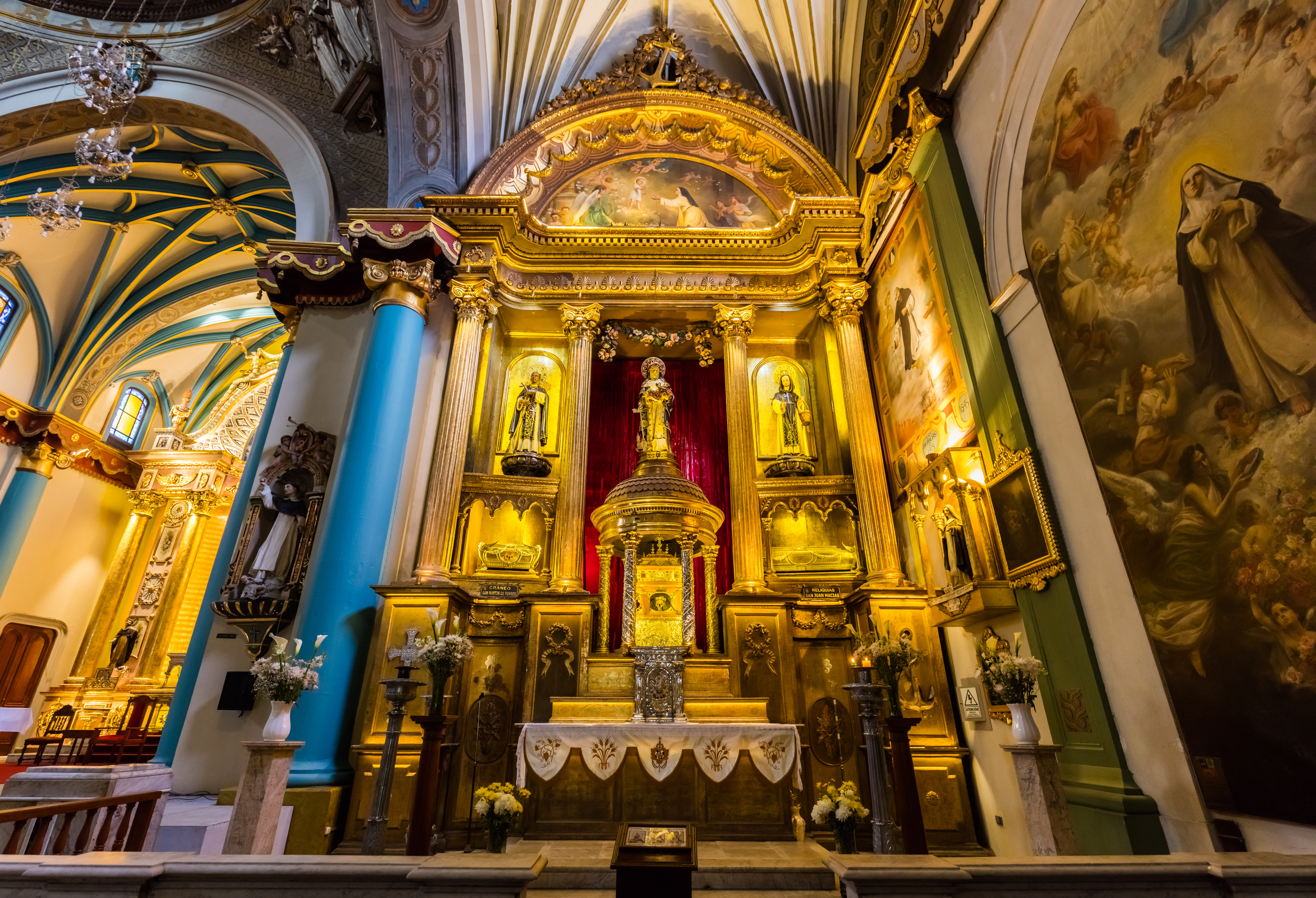 Church of St Domingo, Lima, Peru